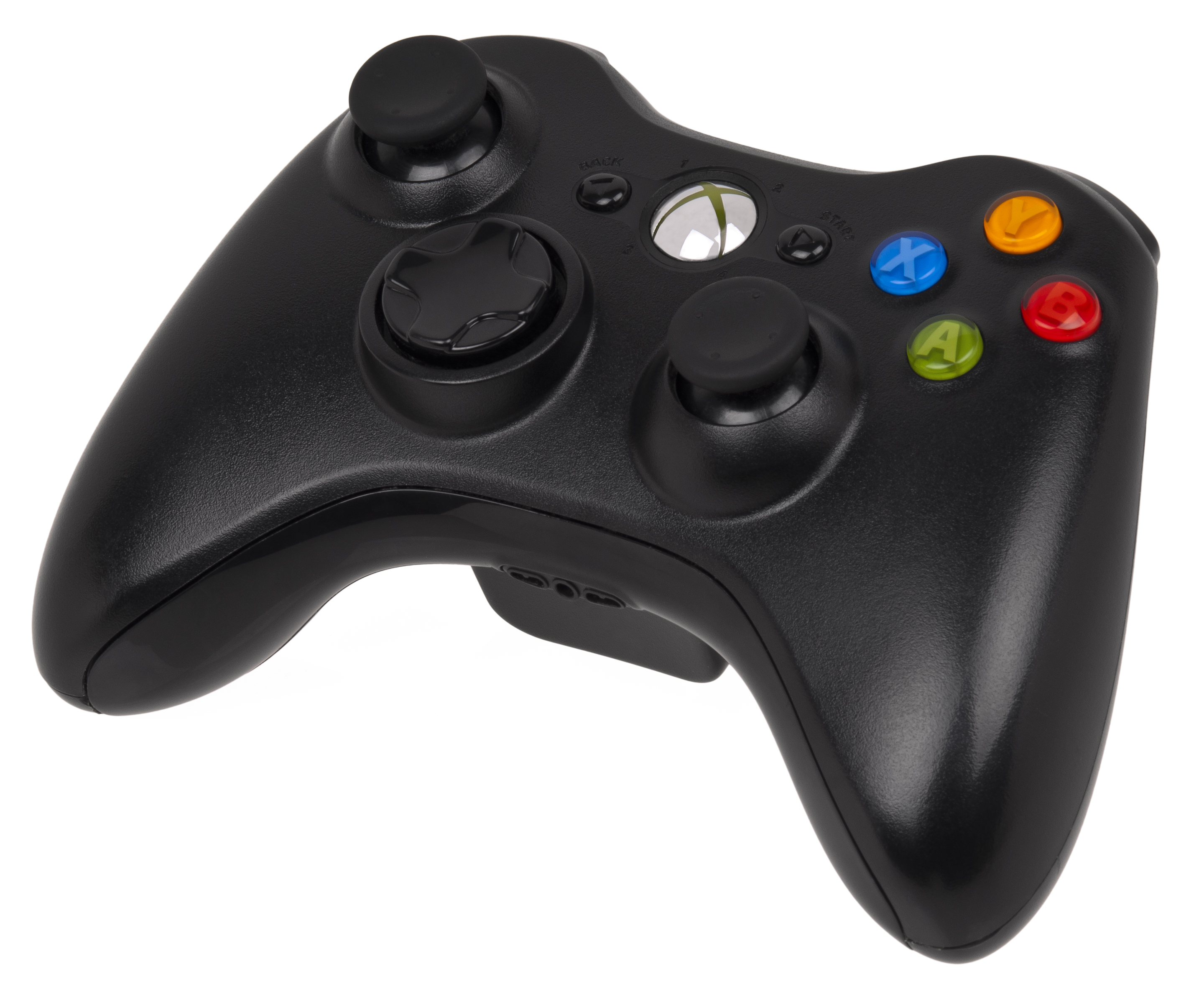 A black Xbox 360 wireless controller. This is the all-black model that comes packed in with 360 S systems.